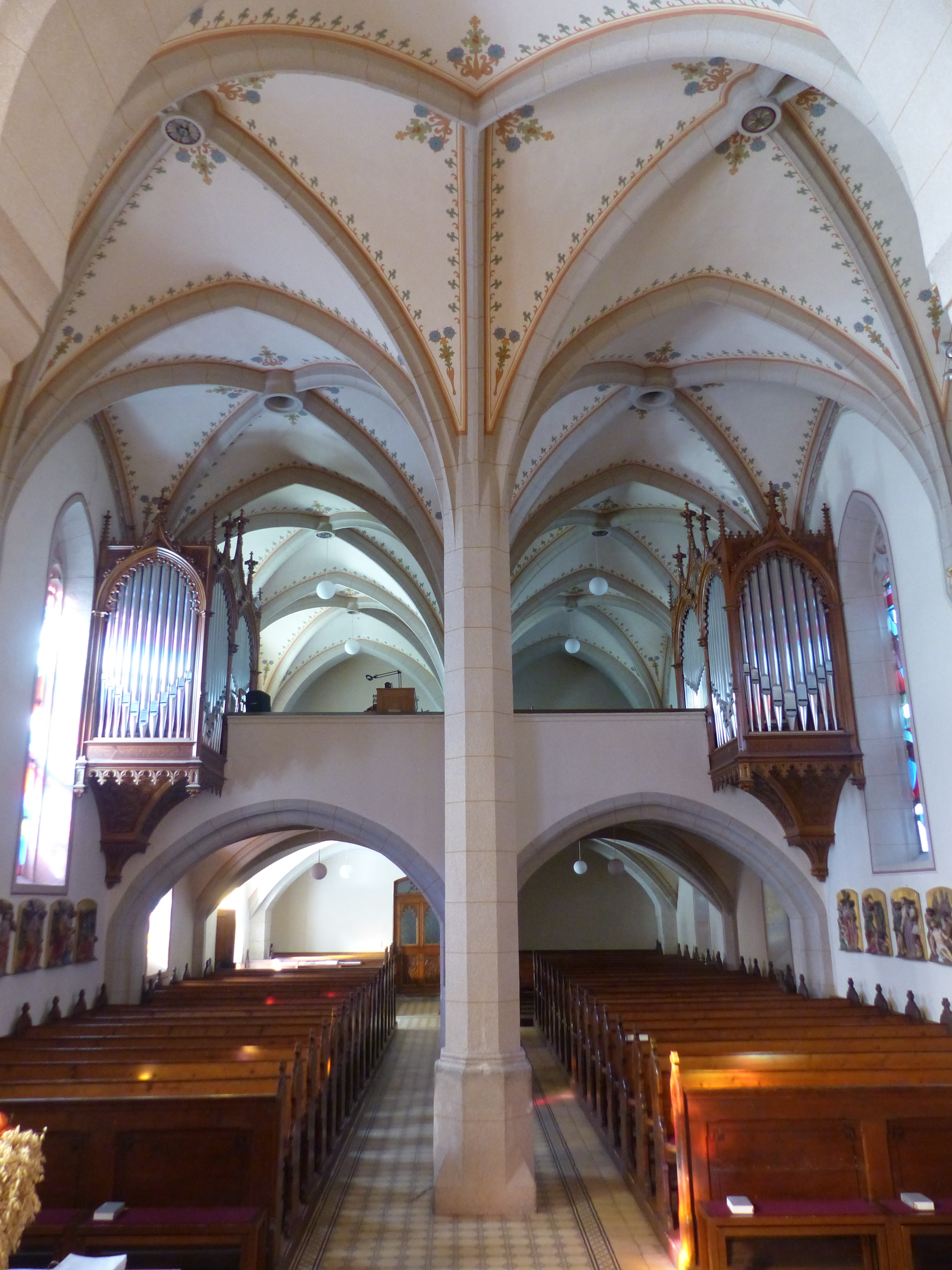 Zwettl an der Rodl ( Upper Austria ). Parish church of the Assumption of Mary - Interior.